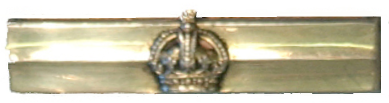 British award for officers in the armed forces, second award ribbon bar